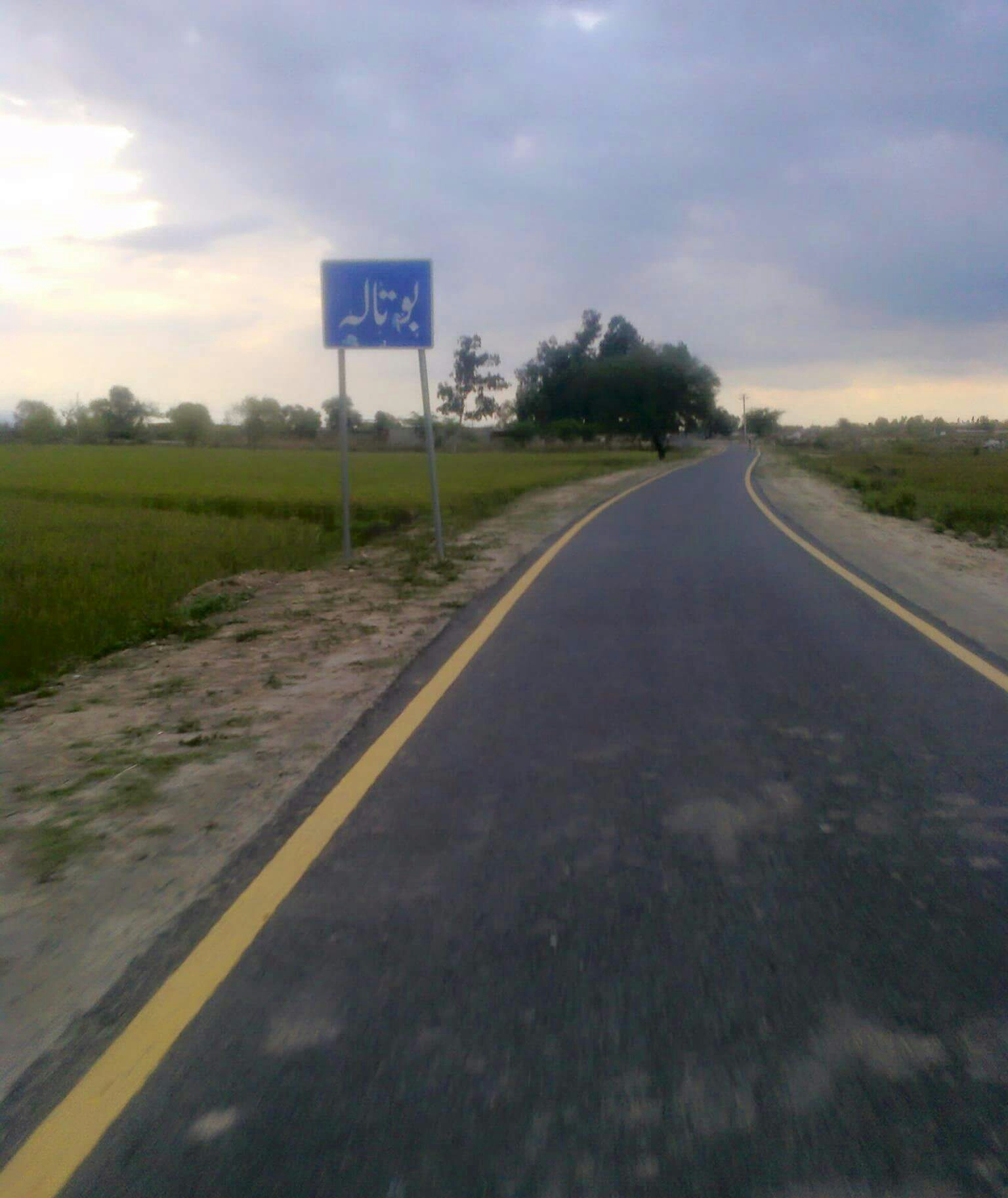 I also Uploaded this Photo on Botala Facebook Page & on website